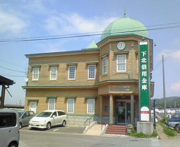 Shimokita Shinkin Bank Sai Branch